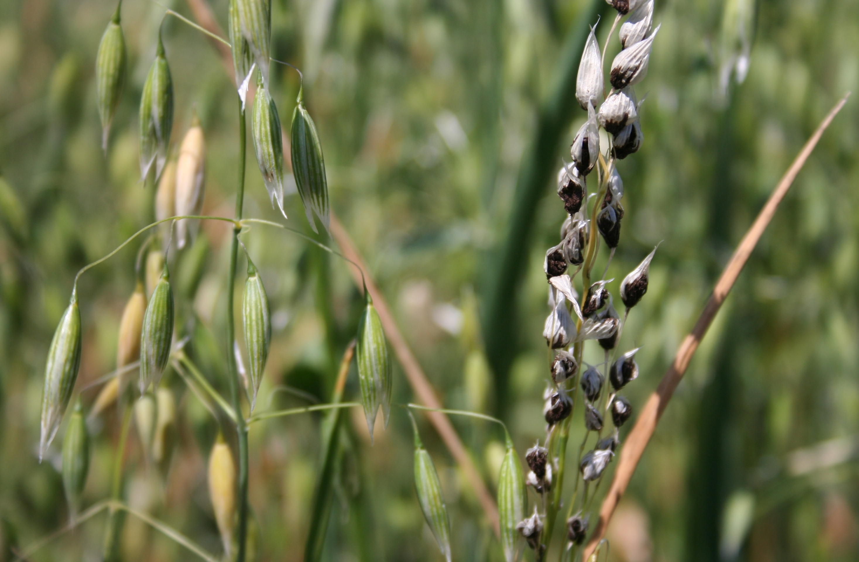 Loose smut of oats (Ustilago avenae) (Pers.) Rostr.